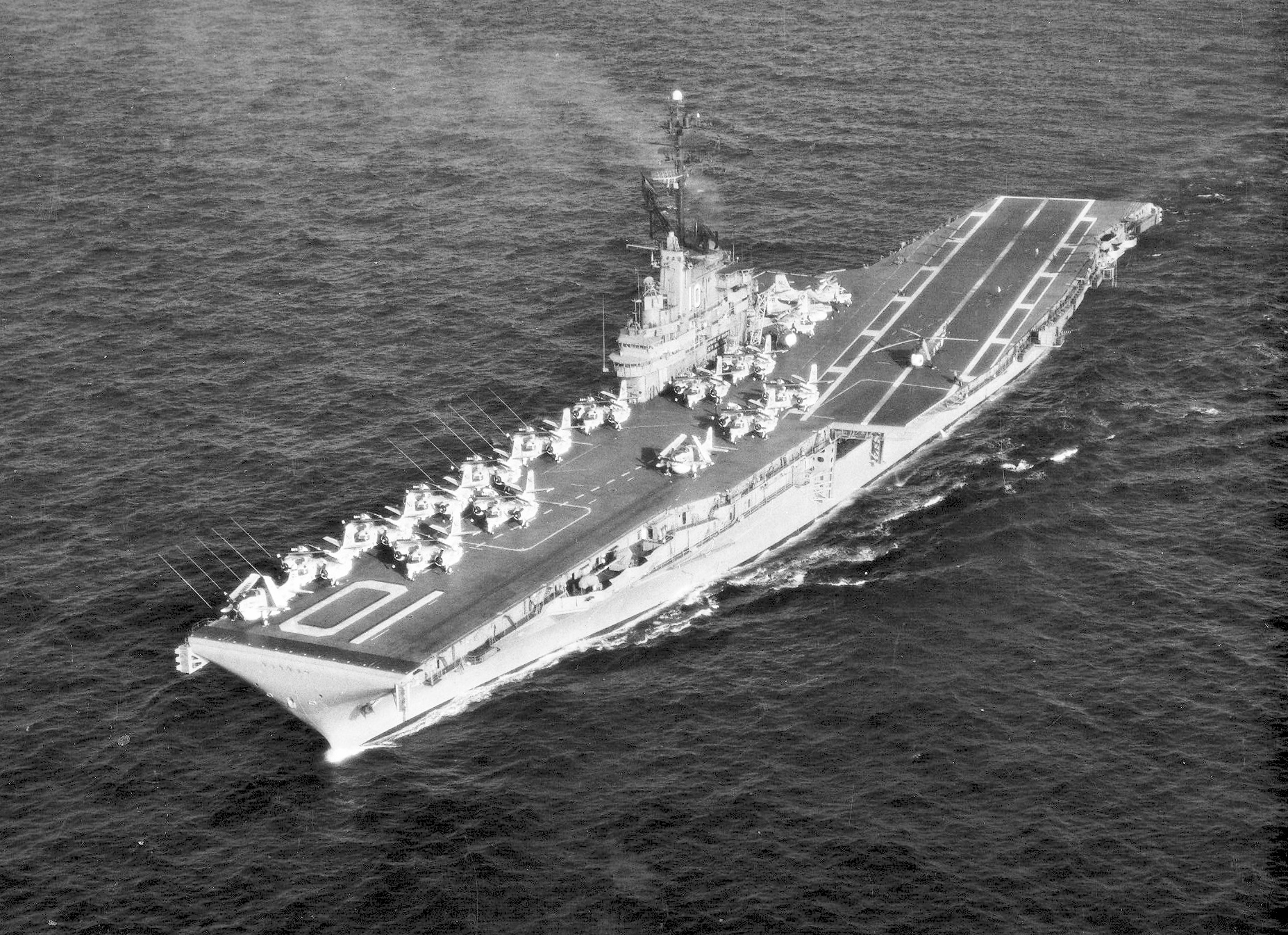 The U.S. Navy aircraft carrier USS Yorktown (CVS-10) underway at sea on 10 March 1963. Yorktown, with assigned Carrier Anti-Submarine Air Group 55 (CVSG-55), was deployed to the Western Pacific from 26 October 1962 to 18 June 1963.